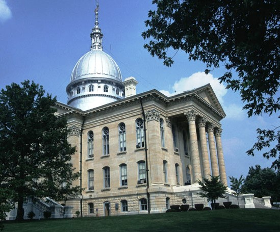 Exterior of the Macoupin County Courthouse, located along Illinois Routes 4/108 in Carlinville, Illinois, United States. Built in 1870, it is part of the Carlinville Historic District, a historic district that is listed on the National Register of Historic Places.